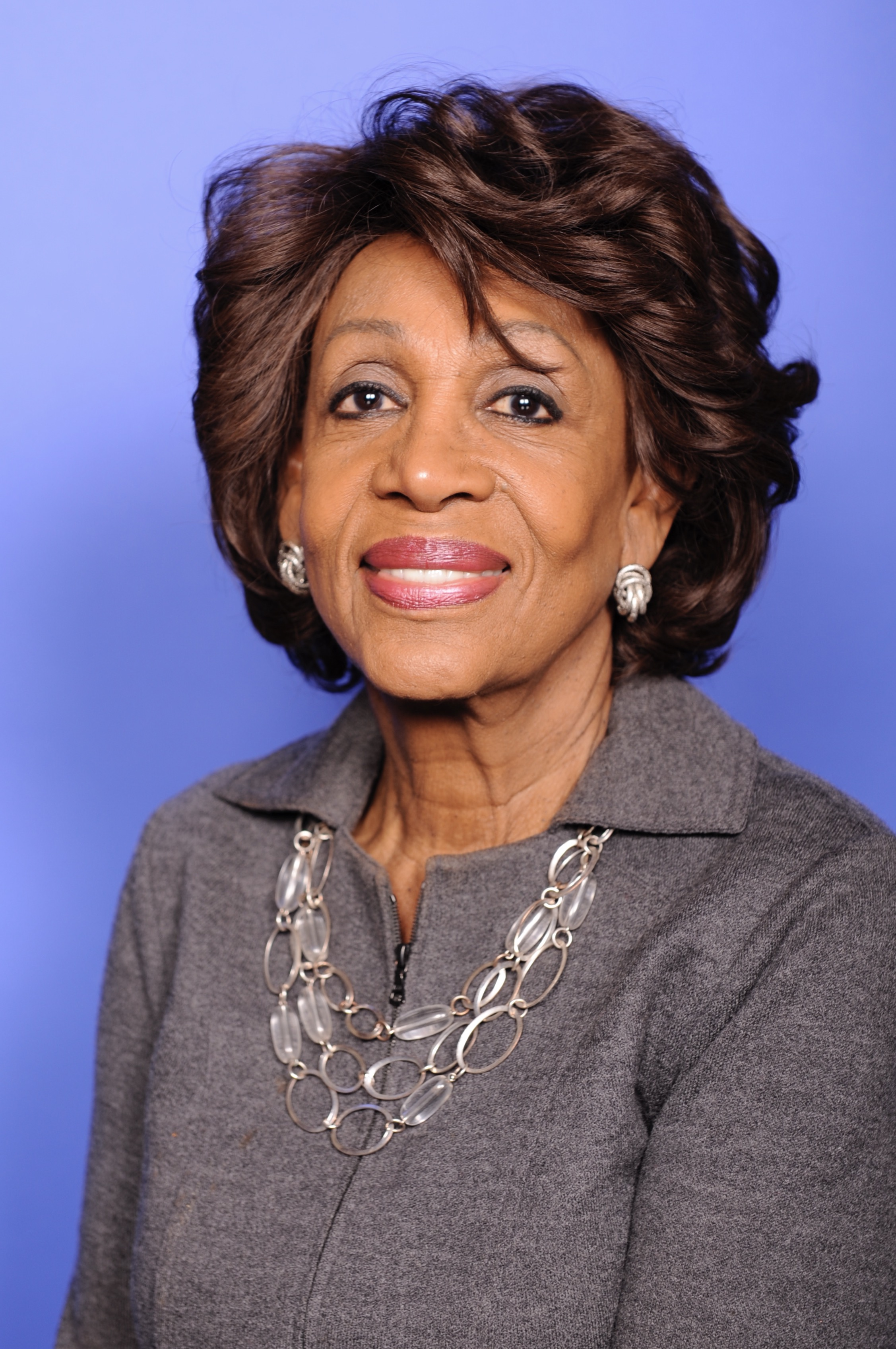 Official photo of congresswoman waters of California